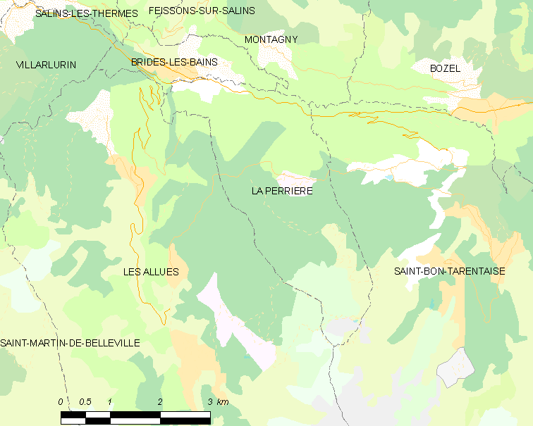 Map of French municipality